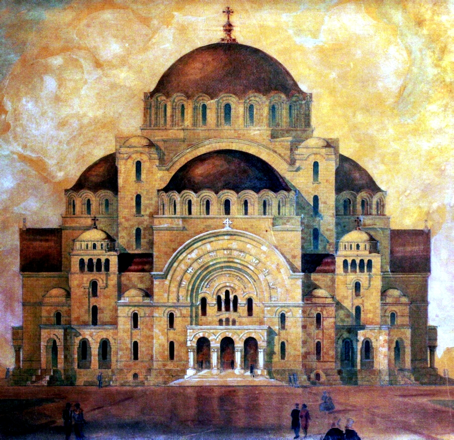 Akvarel Bogdan Nestorovic Hram Svetog Save